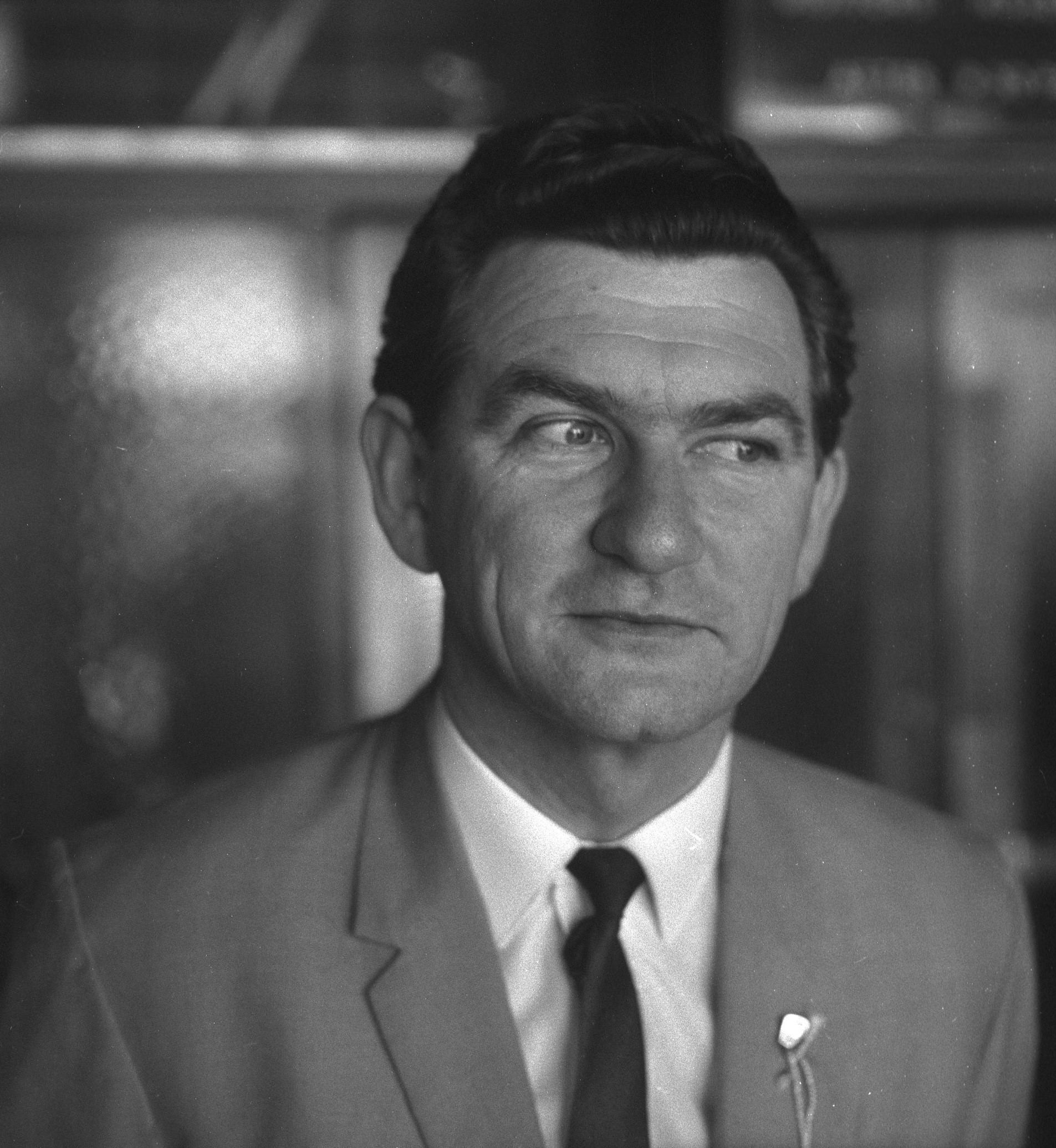 Bob Hawke photographed at a high point in his trade union career, before moving into Federal politics and becoming Prime Minister of Australia in 1983 Format: Film negative Find more detailed information about this photograph: .au/item/itemDetailPaged.aspx?itemID=125376 Search for more great images in the State Library's collections: .au/search/SimpleSearch.aspx From the collection of the State Library of New South Wales Copyright expired : News account